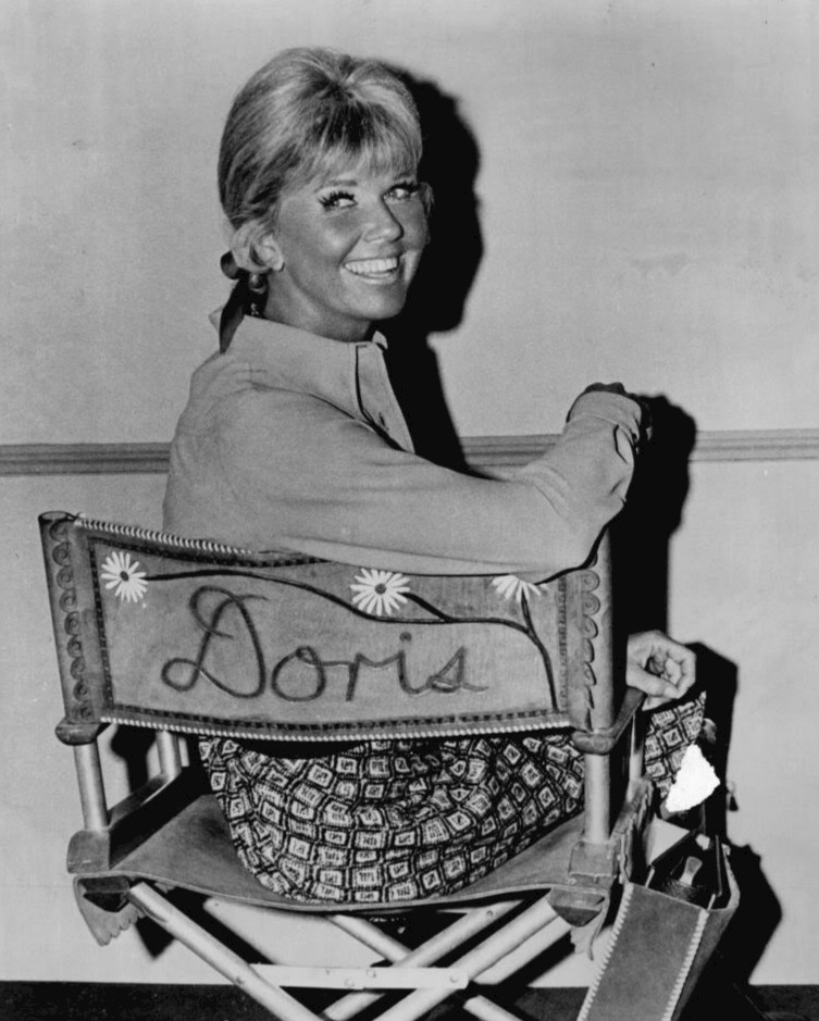 Photo of Doris Day on the set of her television program The Doris Day Show.